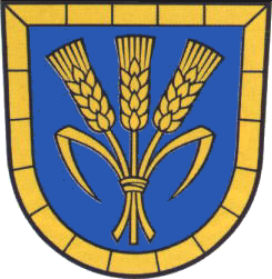 Coat of Arms of Grabsleben